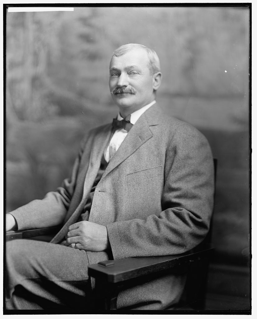 James D. Post, congressman from Ohio.